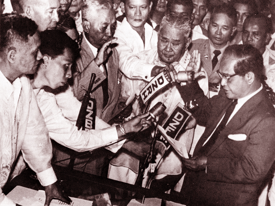 Vice-President Carlos P. Garcia was inaugurated as the 8th President of the Philipines upon the death of President Ramon Magsaysay on March 23, 1957 at the Council of State Room, Executive Building, Malacañan Palace. The oath of office was administered by Chief Justice Ricardo Paras.